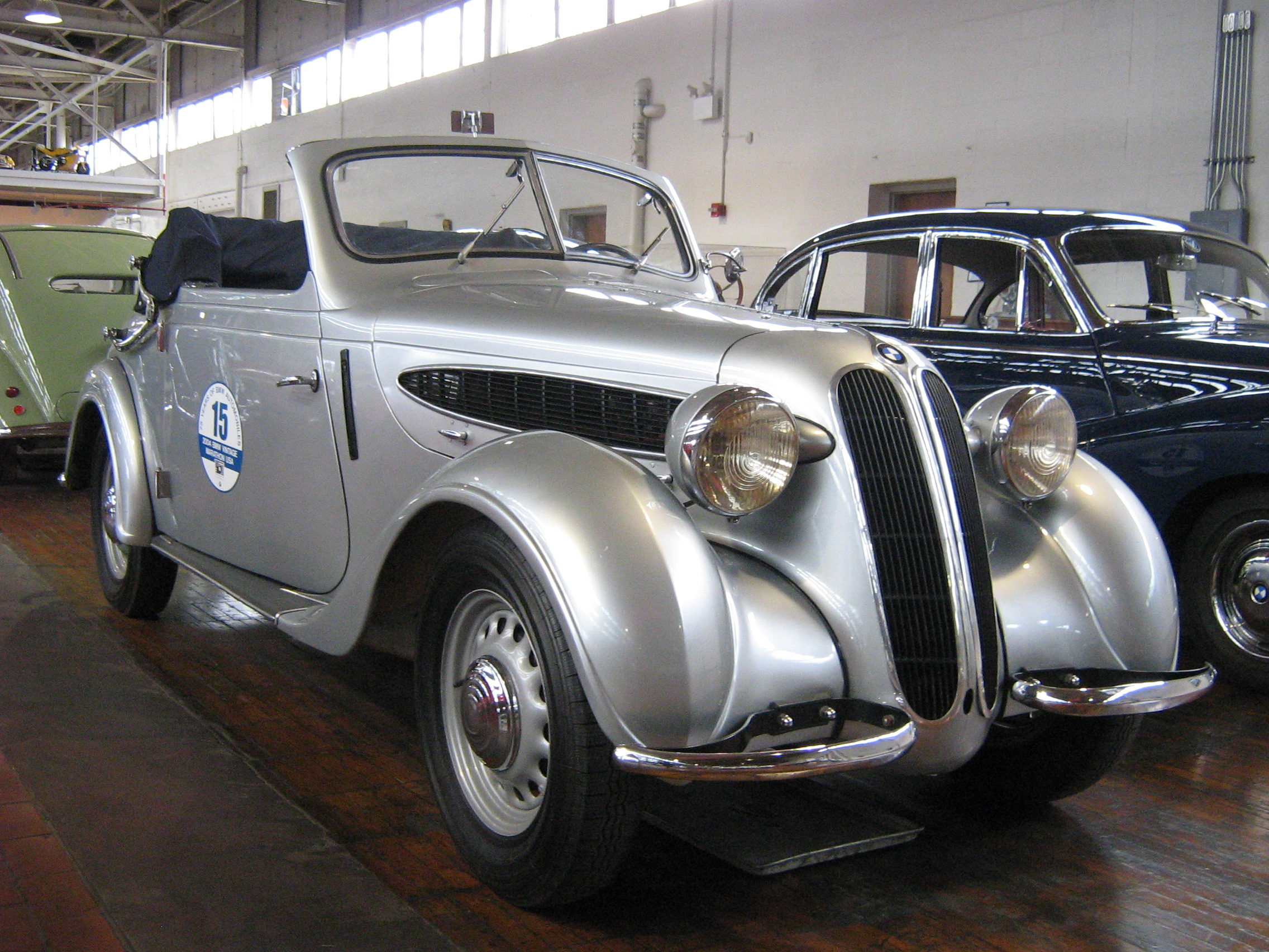 1938 BMW 320